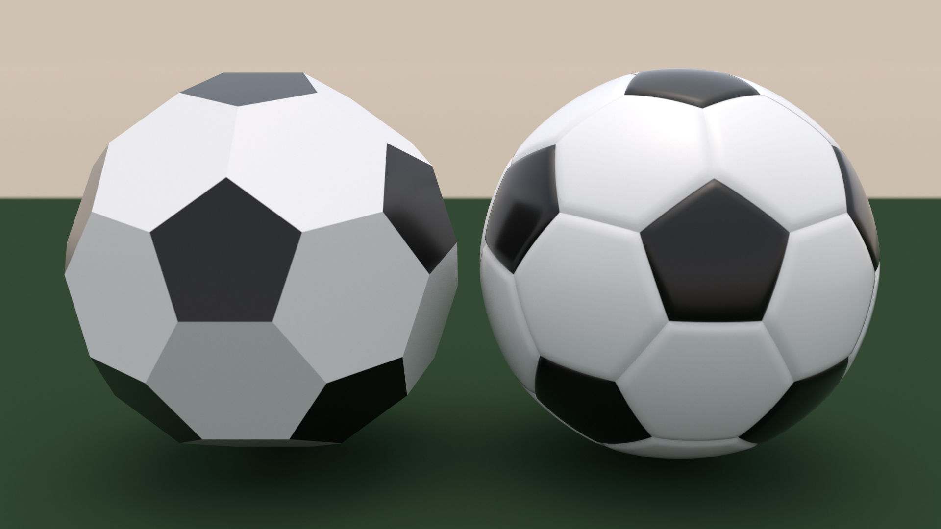 Comparison of a truncated icosahedron with the typical appearance of a football/soccer ball. The design of this image was based on File:Trunc-icosa.jpg, which is in the public domain. This image has added global illumination effects and is much higher resolution. Modeled and rendered in Blender 2.71.